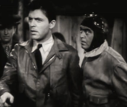 Lyle Talbot (left) & George Cooper in Murder in the Clouds - trailer (cropped screenshot)